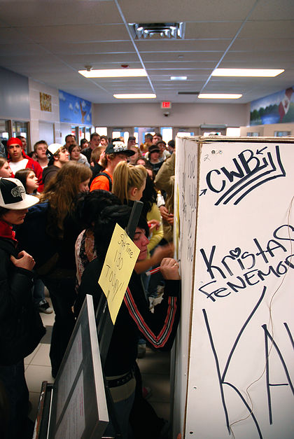 Artist James Ruddle, not pictured, began a three-day painting marathon inside the performance art cube. These are students signing the outside of the Box